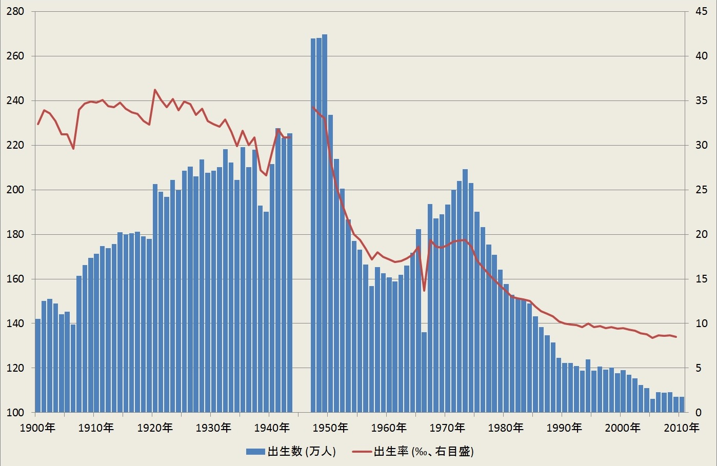 Birth rate of Japan (1900-2010)